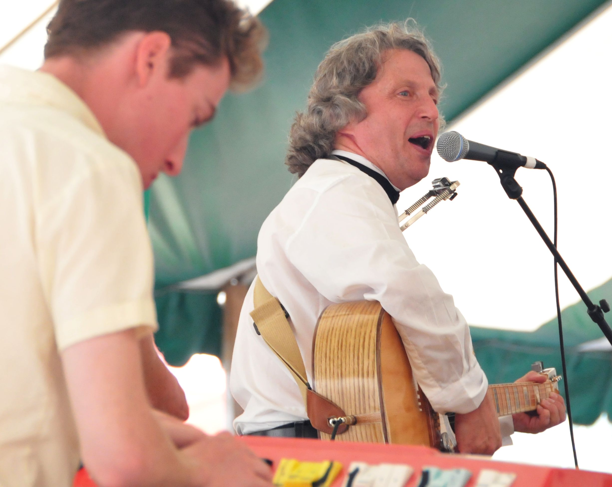 James Gordon performing at the Hillside Festival 2008. His son, Geordie, is to the left.